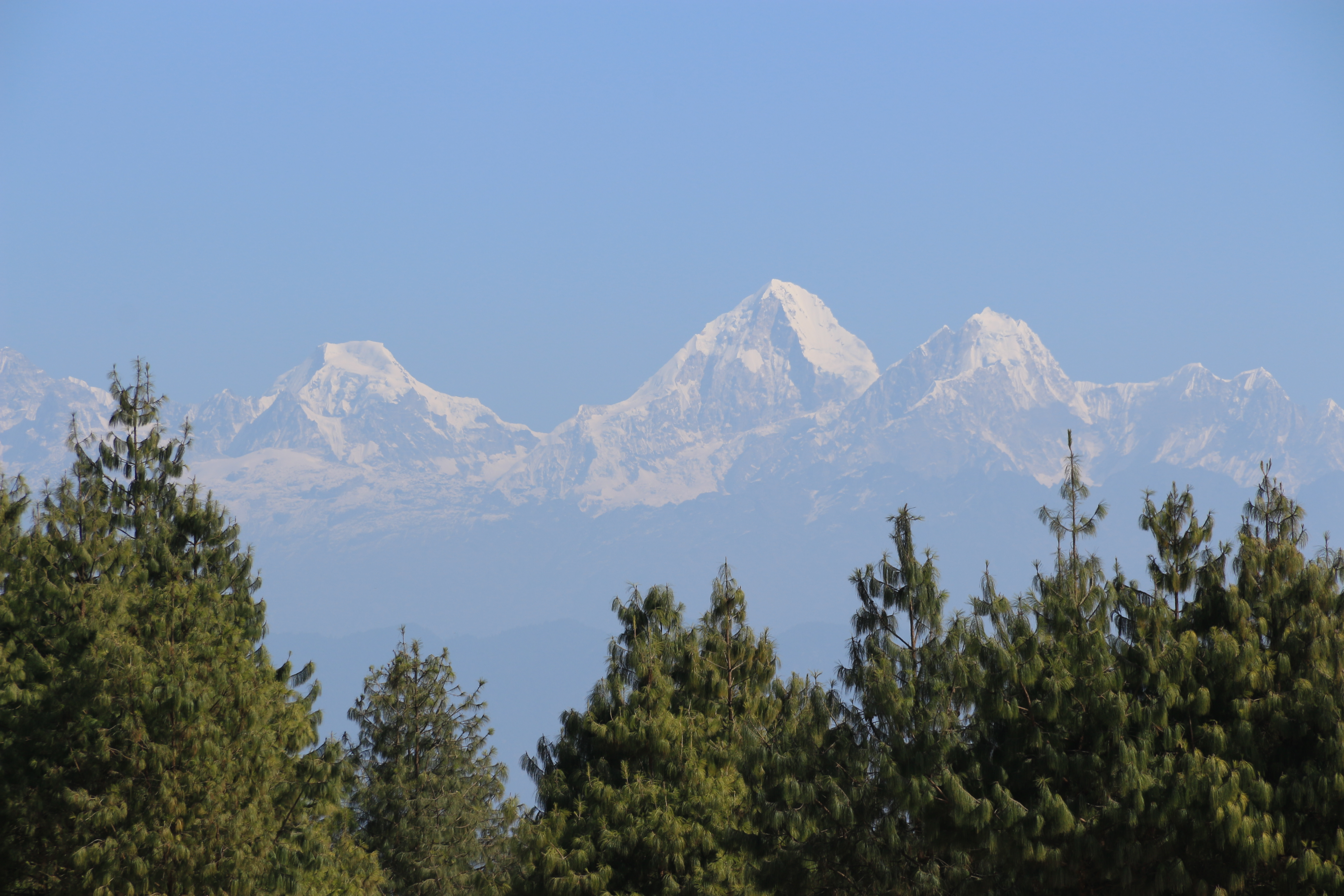 Chisapani